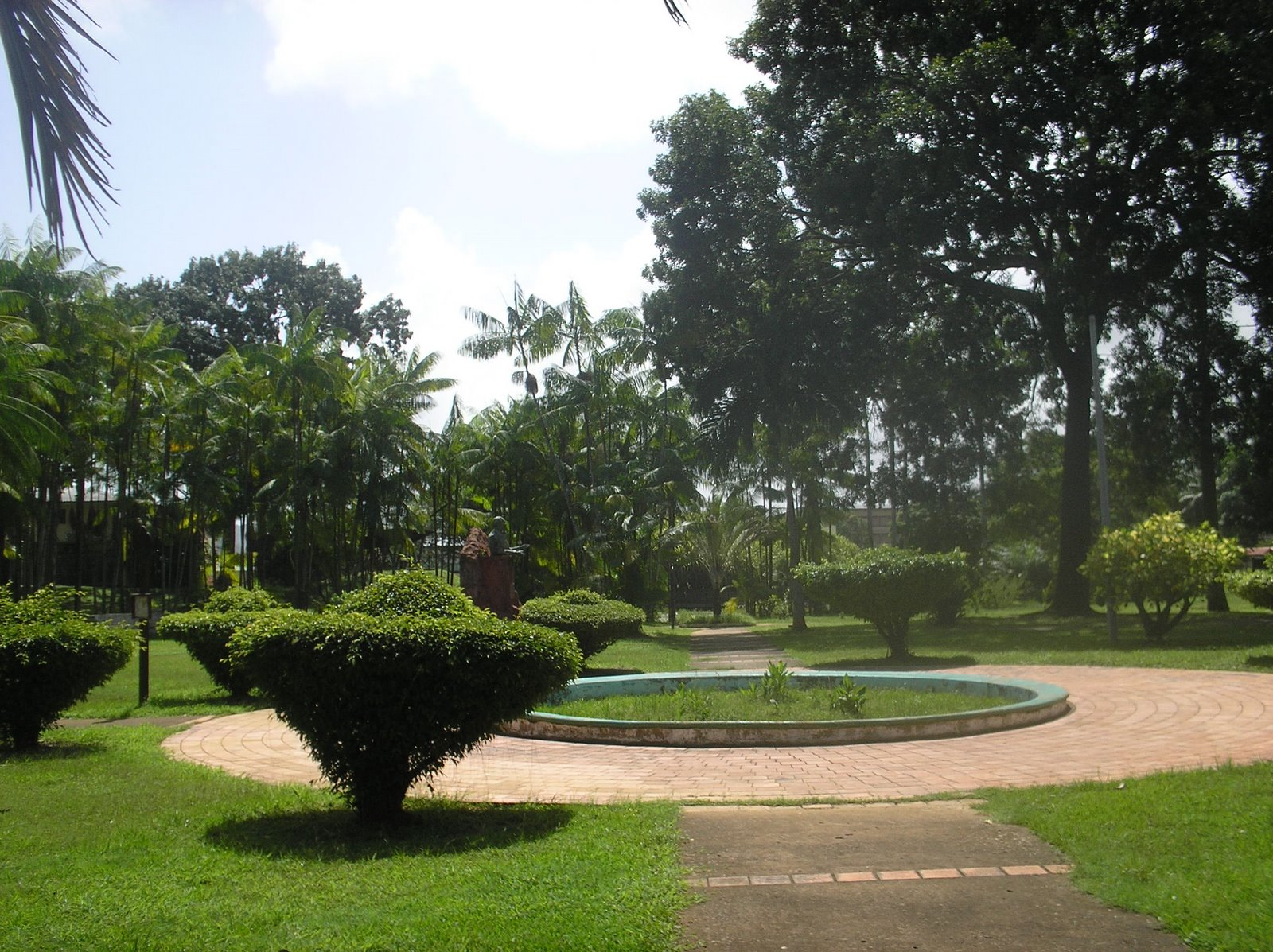 Jardin Botanique in Cayenne downtown. With a statue of Gaston Monnerville